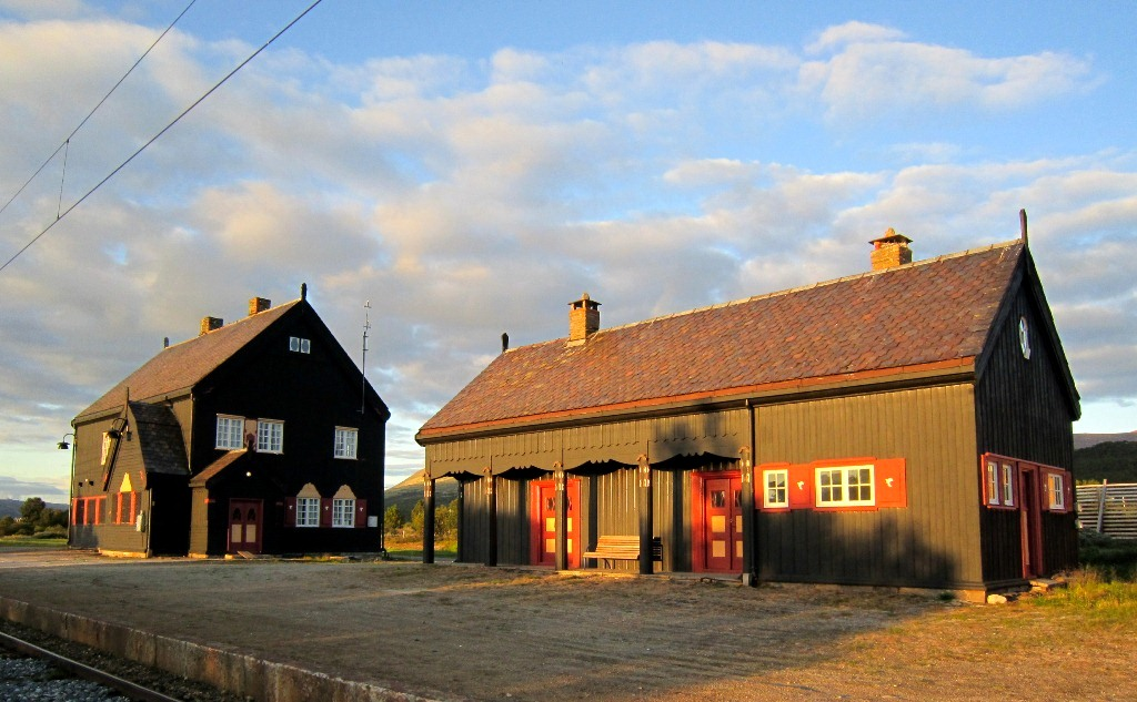 Fokstua station on the Dovre line (Oppland, Norway)